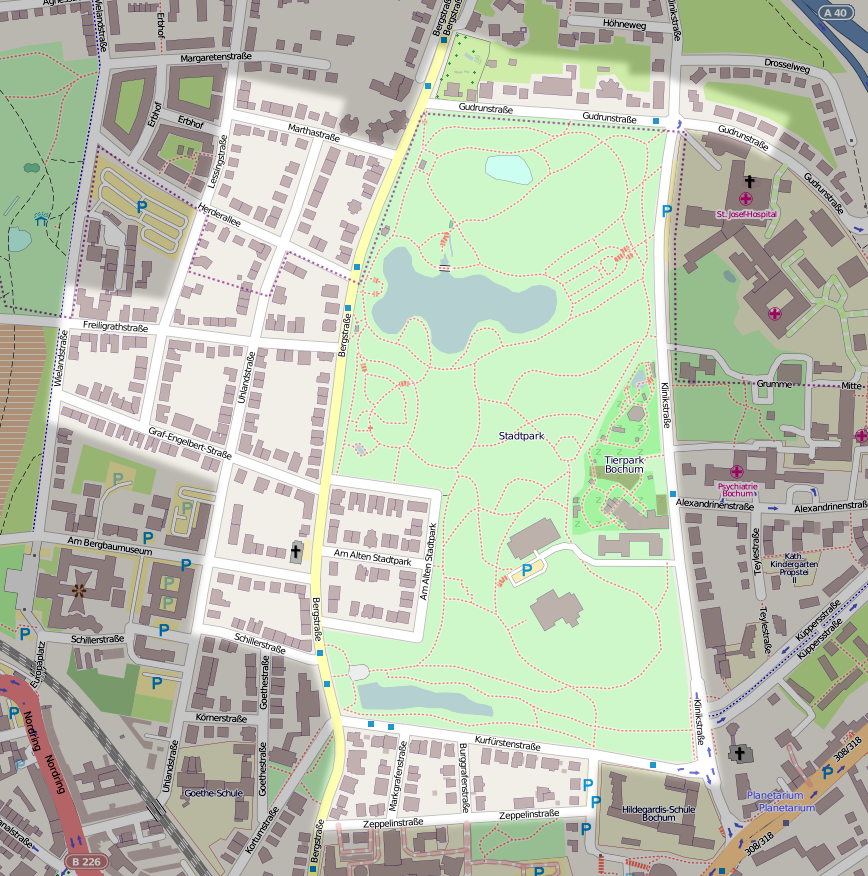 Map of Stadtparkviertel Bochum. This map may be incomplete, and may contain errors. Don't rely solely on it for navigation.